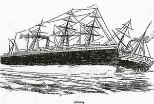 newspaper illustration of the collision of the SS City of Chester w/ another ship, in 1888